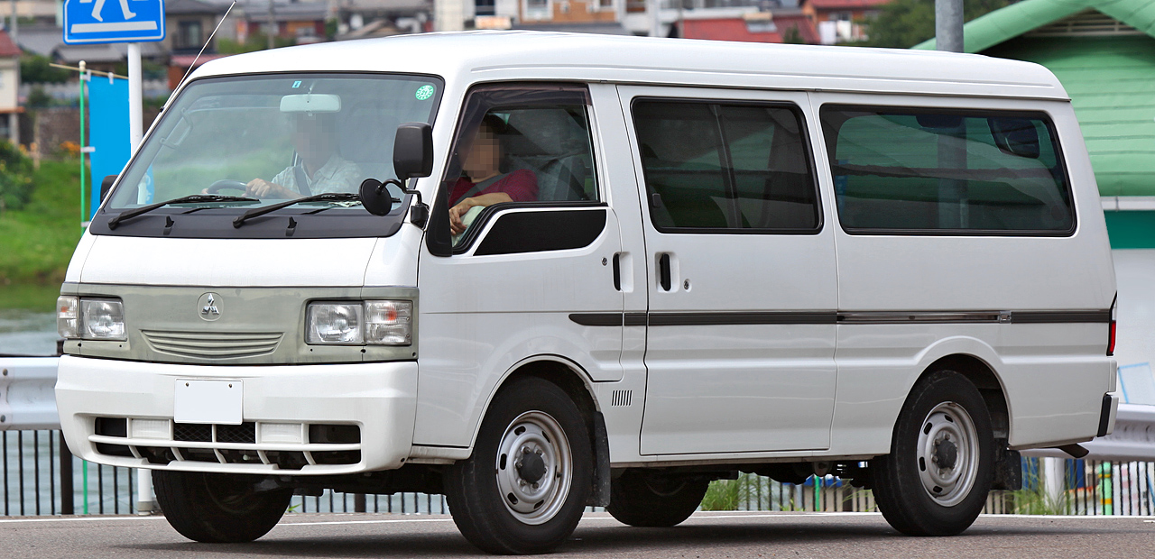 Fifth generation Mitsubishi Delica Cargo (SKF6V)